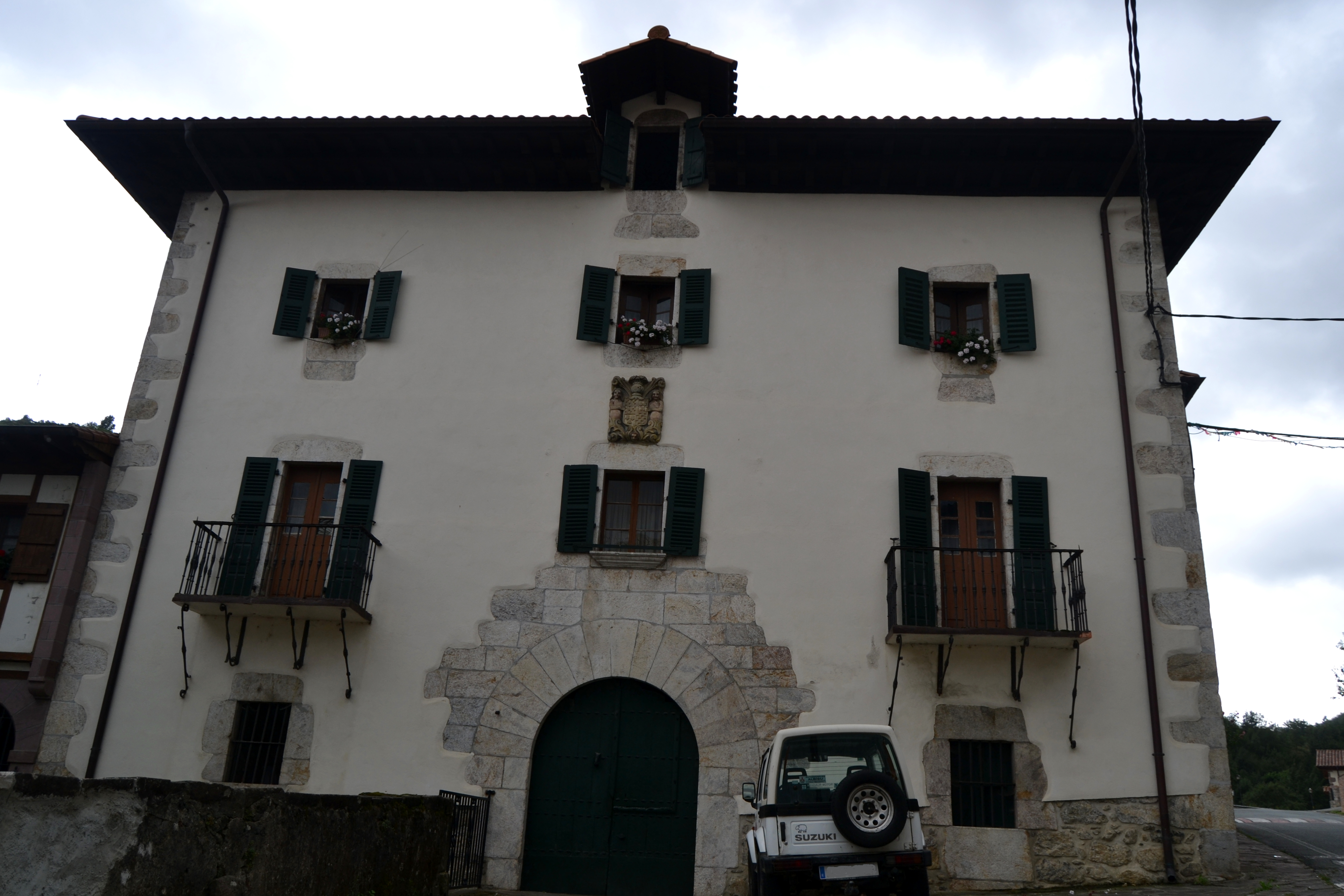 Jauregia house, Almadoz, Baztan, Navarre, Basque Country.